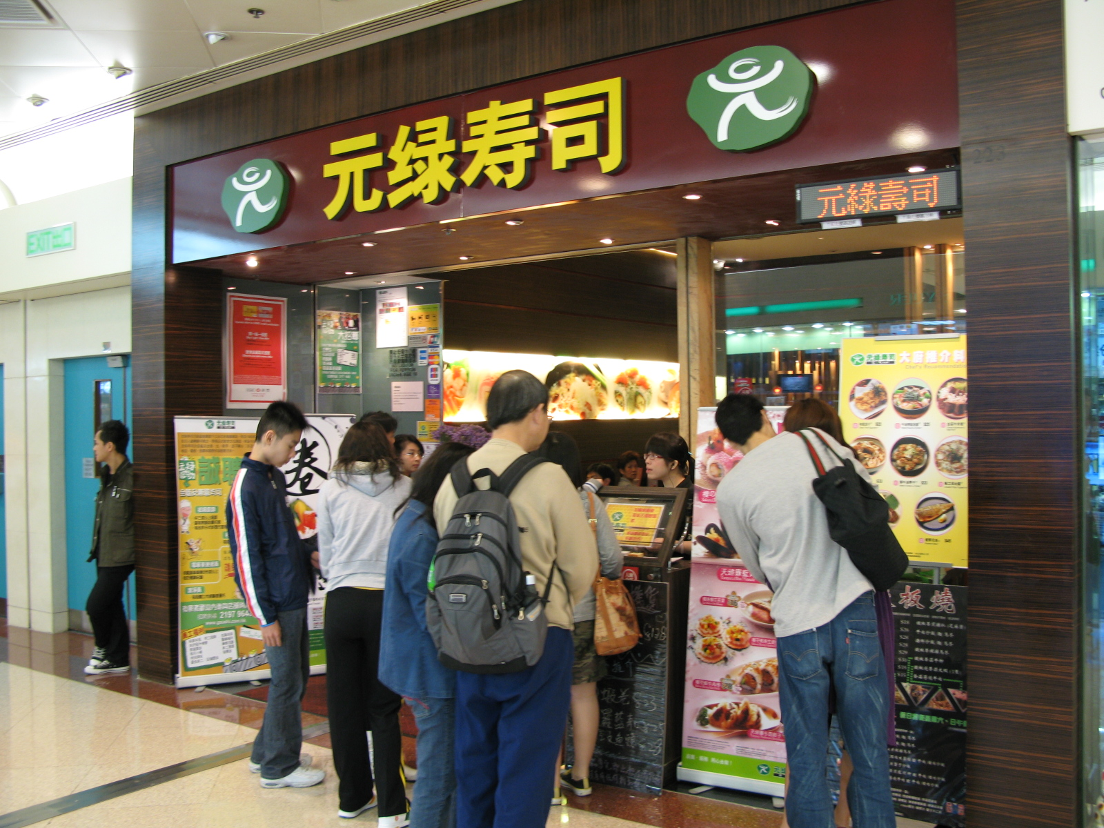 G Sushi in Plaza Hollywood